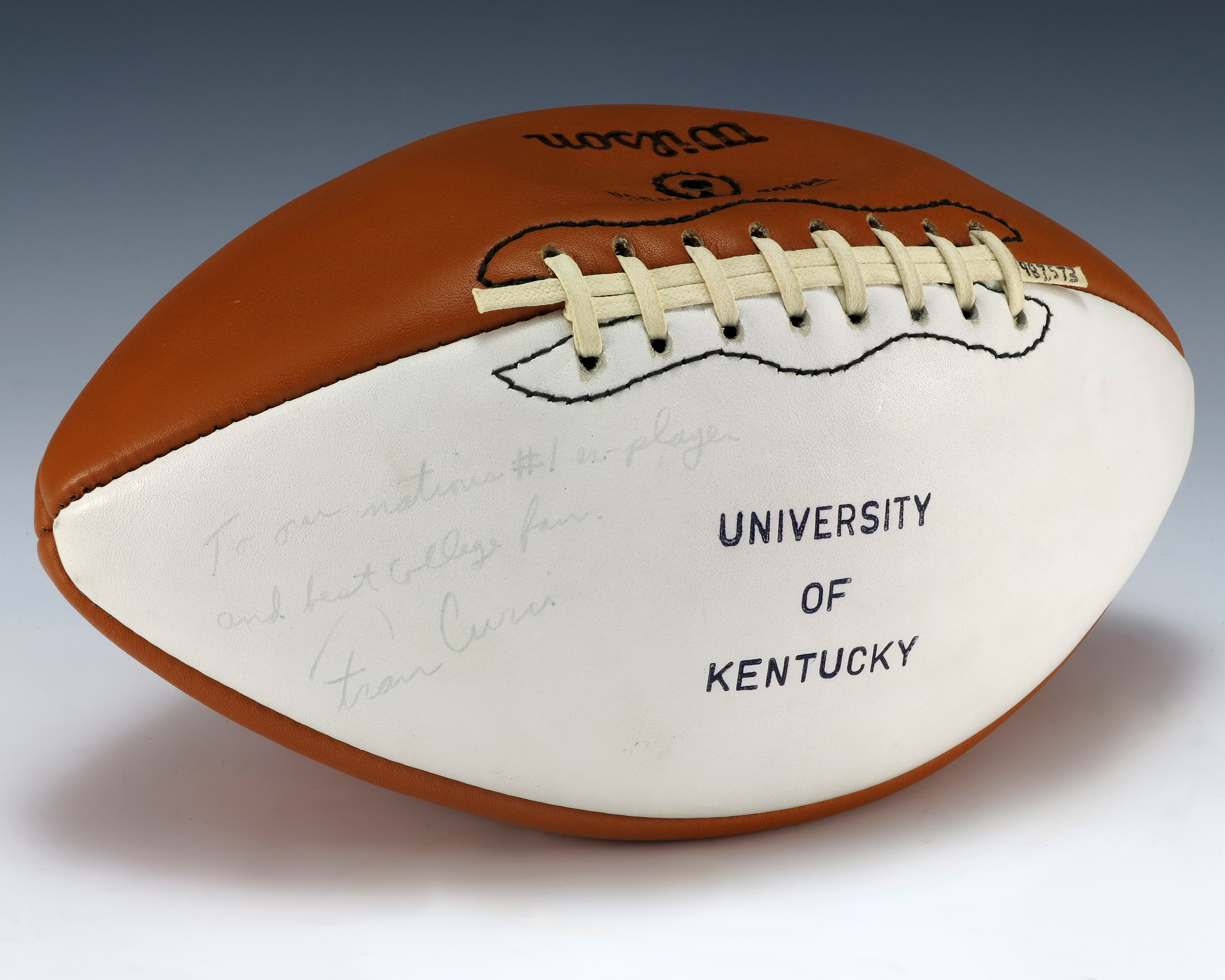 A football signed by the University of Kentucky Wildcats coach, Fran Curci. Along with an inscription to Ford stating “To our nation’s #1 ex-player / and best college fan. Fran Curci.”